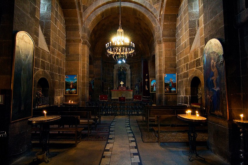 Shoghakat Ch., Armenia. View: indoor